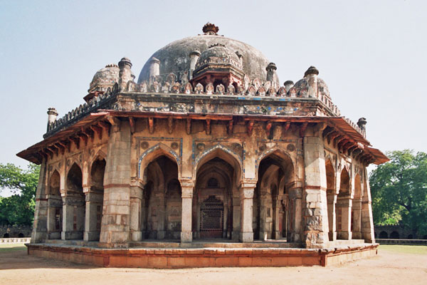 Isa Khan’s Tomb, New Delhi, India, within the Humayun's complex